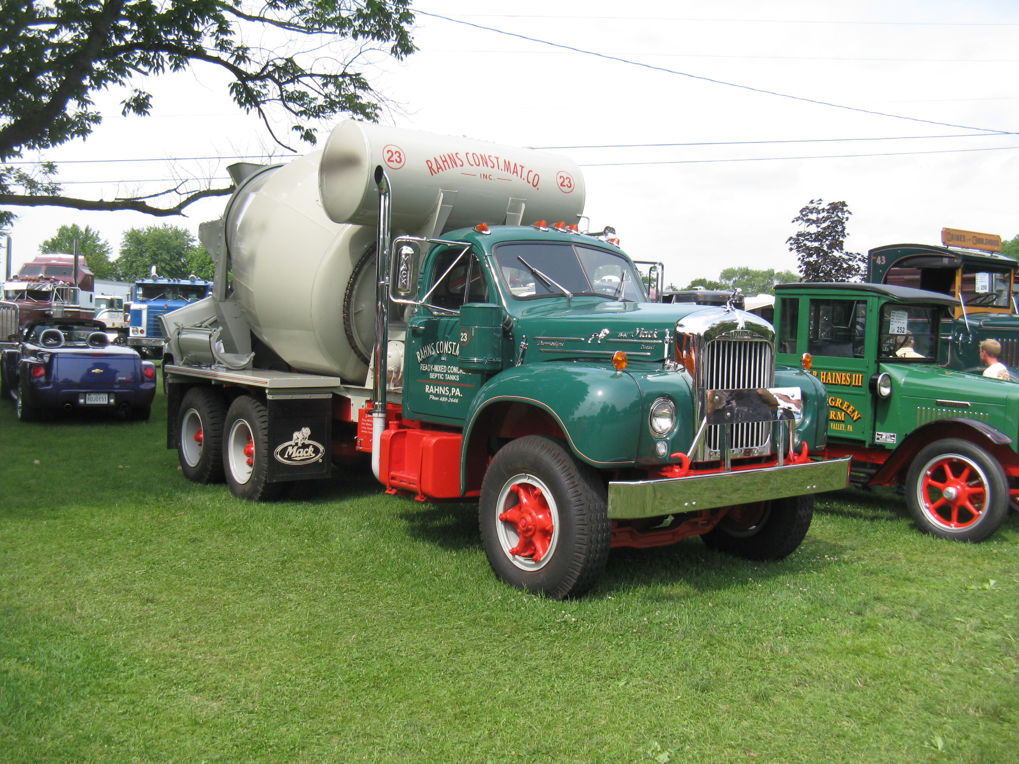 6-18-11 MACUNGIE ATCA TRUCK SHOW